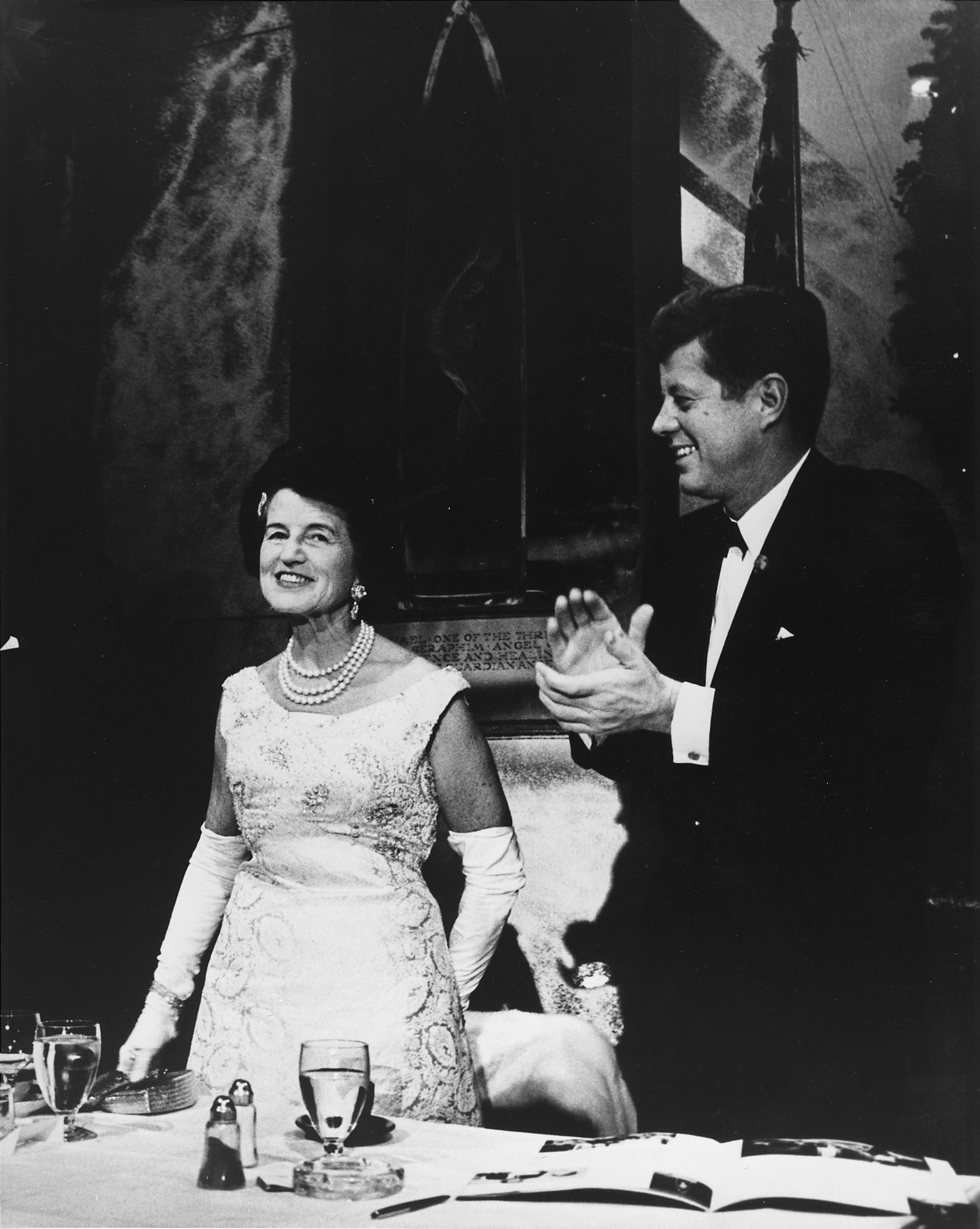 First Annual International Awards Dinner of the Joseph P. Kennedy Jr. Foundation. President Kennedy, Mrs. Rose Kennedy. Washington, D. C., Statler Hilton Hotel